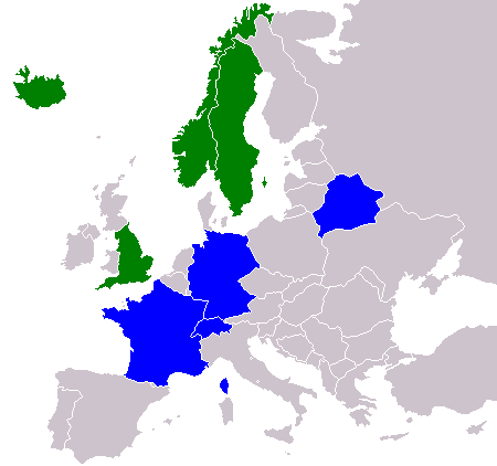 Participating teams in the 2009 UEFA Women's Under-19 Championship blue = Group A green = Group B